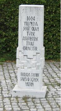 The monument of the casualty Turks in Mogersdorf